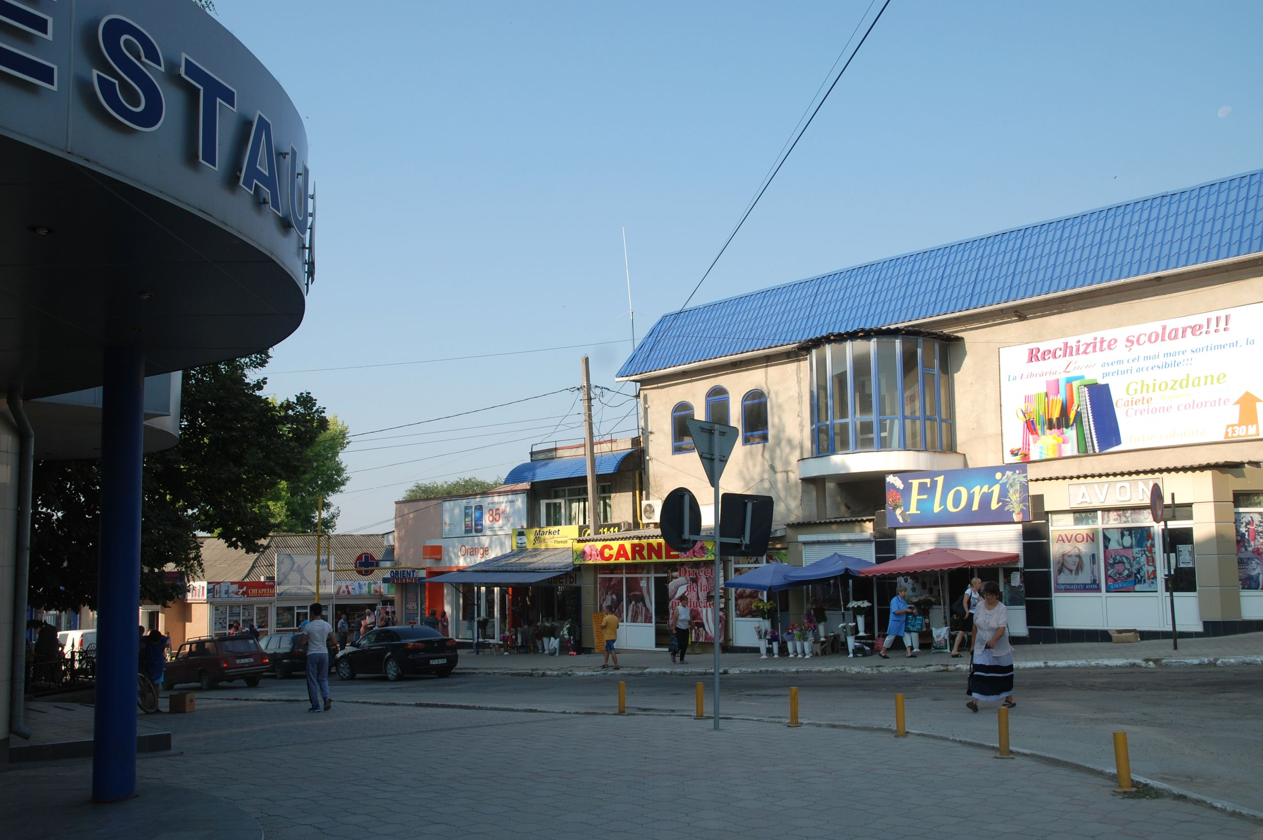 Florești, market near railway station